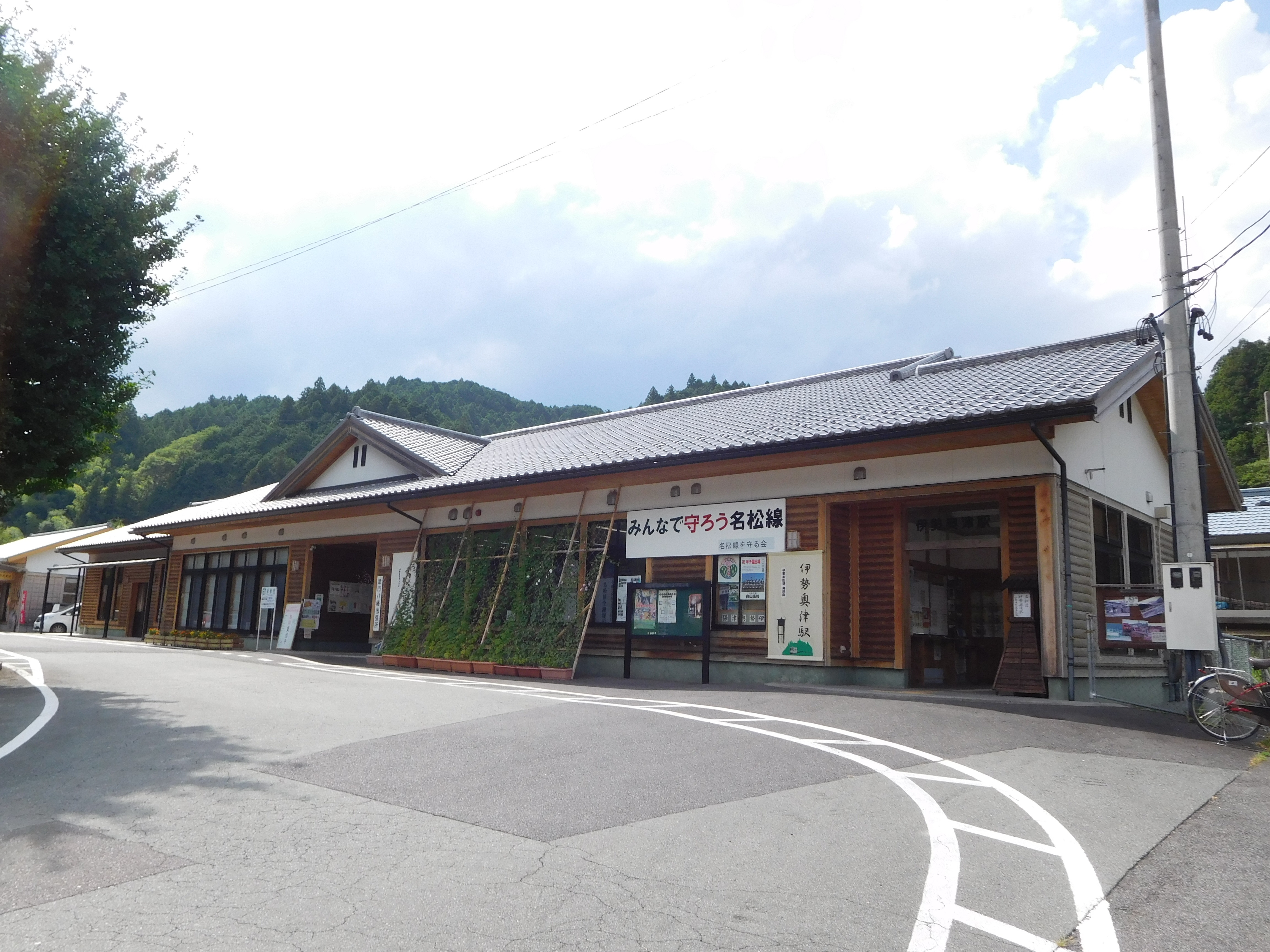 This is JR Miesho Line Ise-Okitsu station in Tsu, Mie, Japan. It is shared with Tsu city hall Yawata branch.